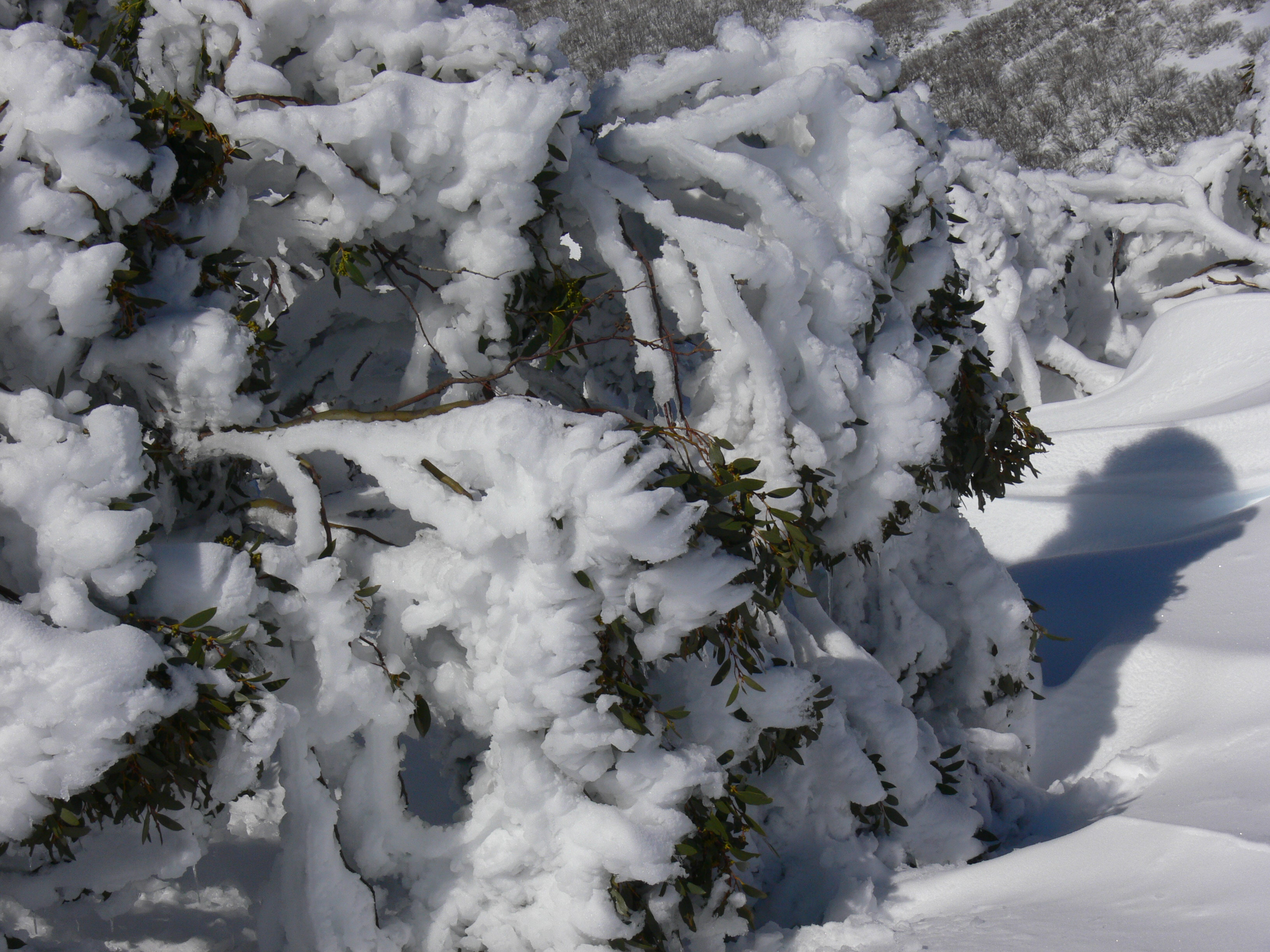 Snow gum (Eucalyptus pauciflora) showing how the tree adapts to the weight of snow by bending its branches.